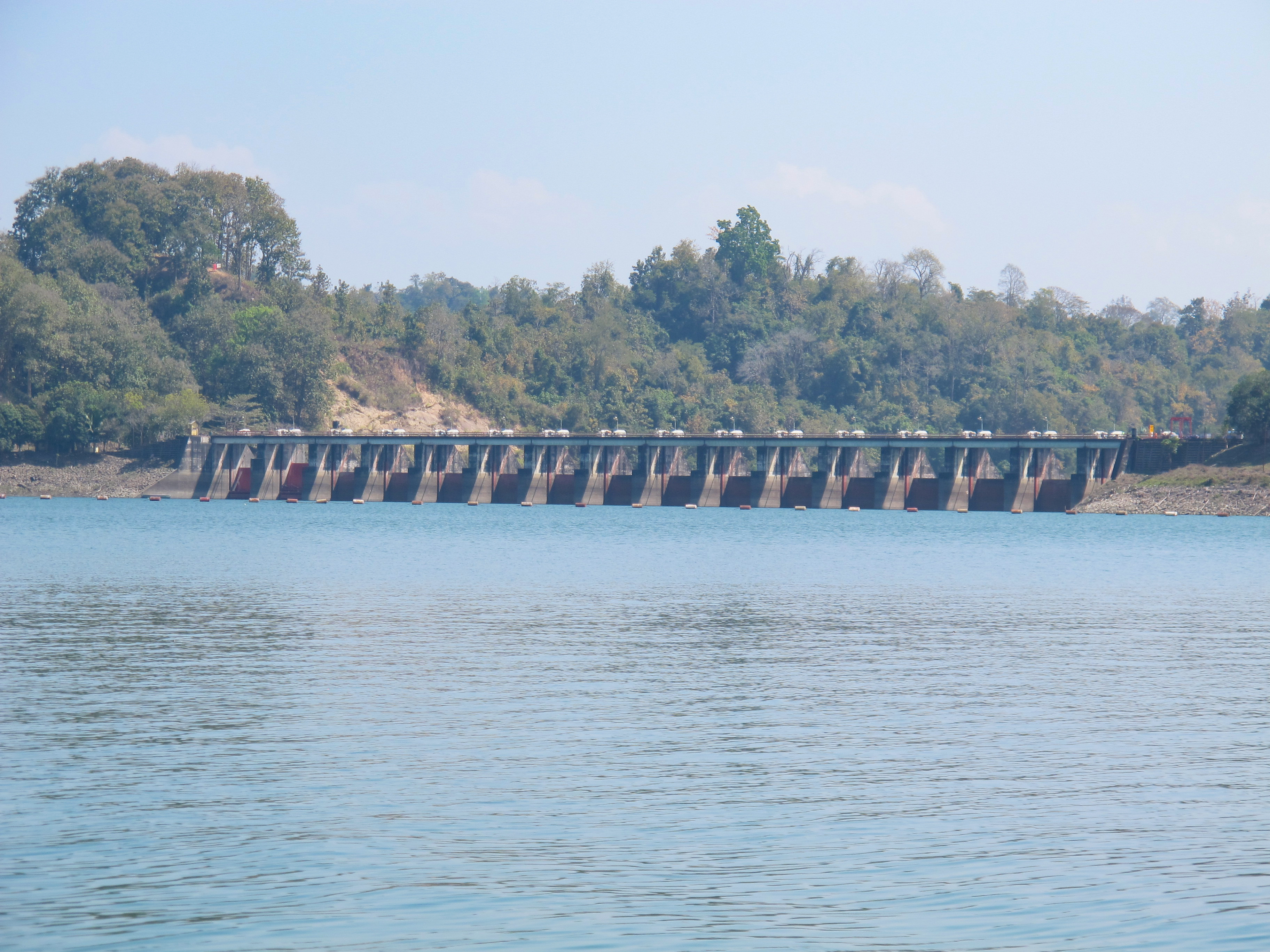 Kaptai Dam is on the Karnaphuli River at Kaptai in Rangamati District, Bangladesh.